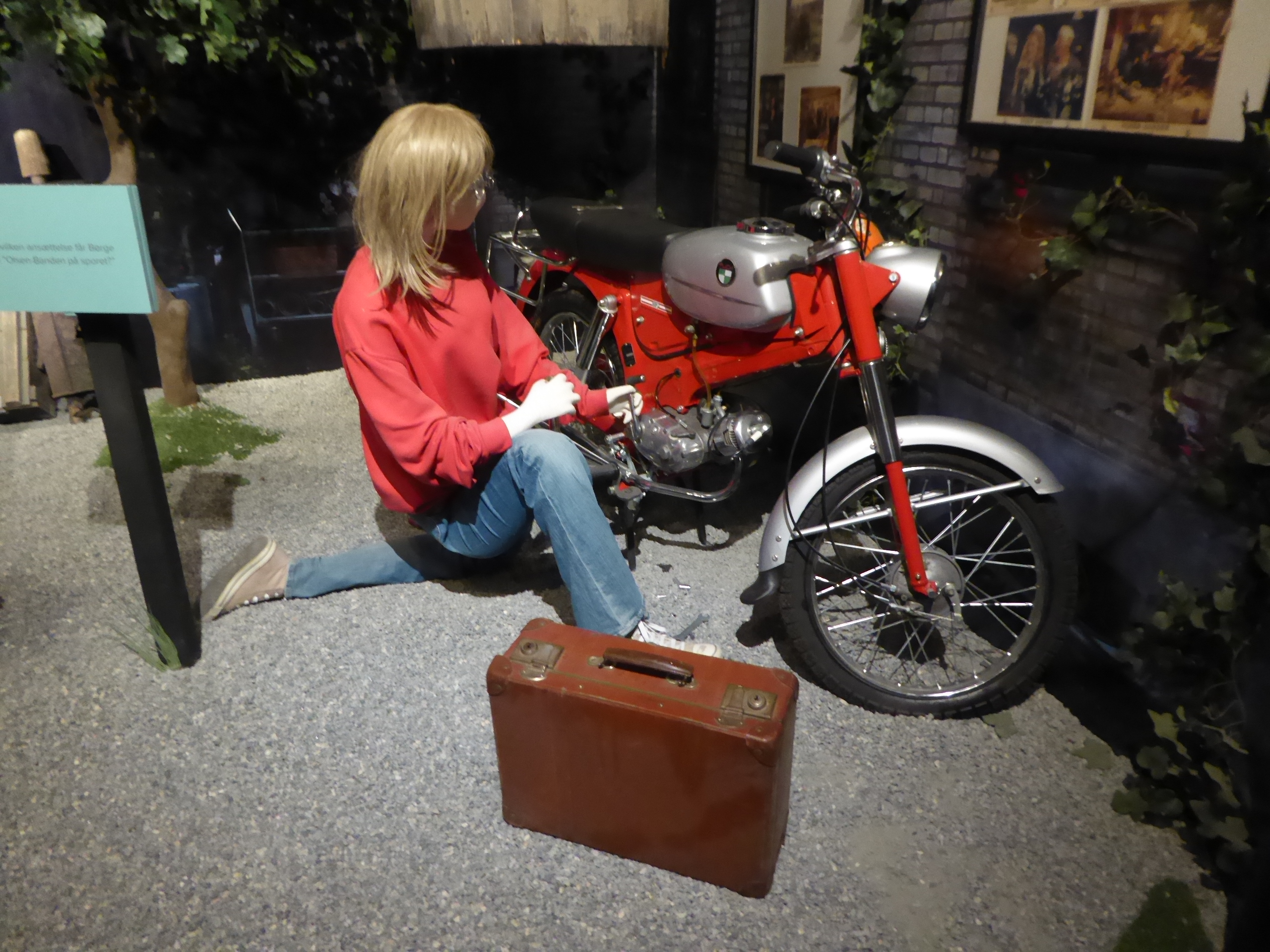 Recreation of the boy Børge Jensen played by Jes Holtsø with his moped from the Danish Olsen-banden film series in a special exhibition at Nordisk Film in Copenhagen.